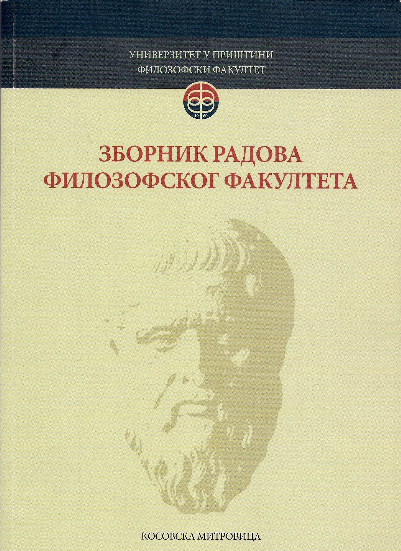 Zbornik radova Filozofskog fakulteta in Priština .